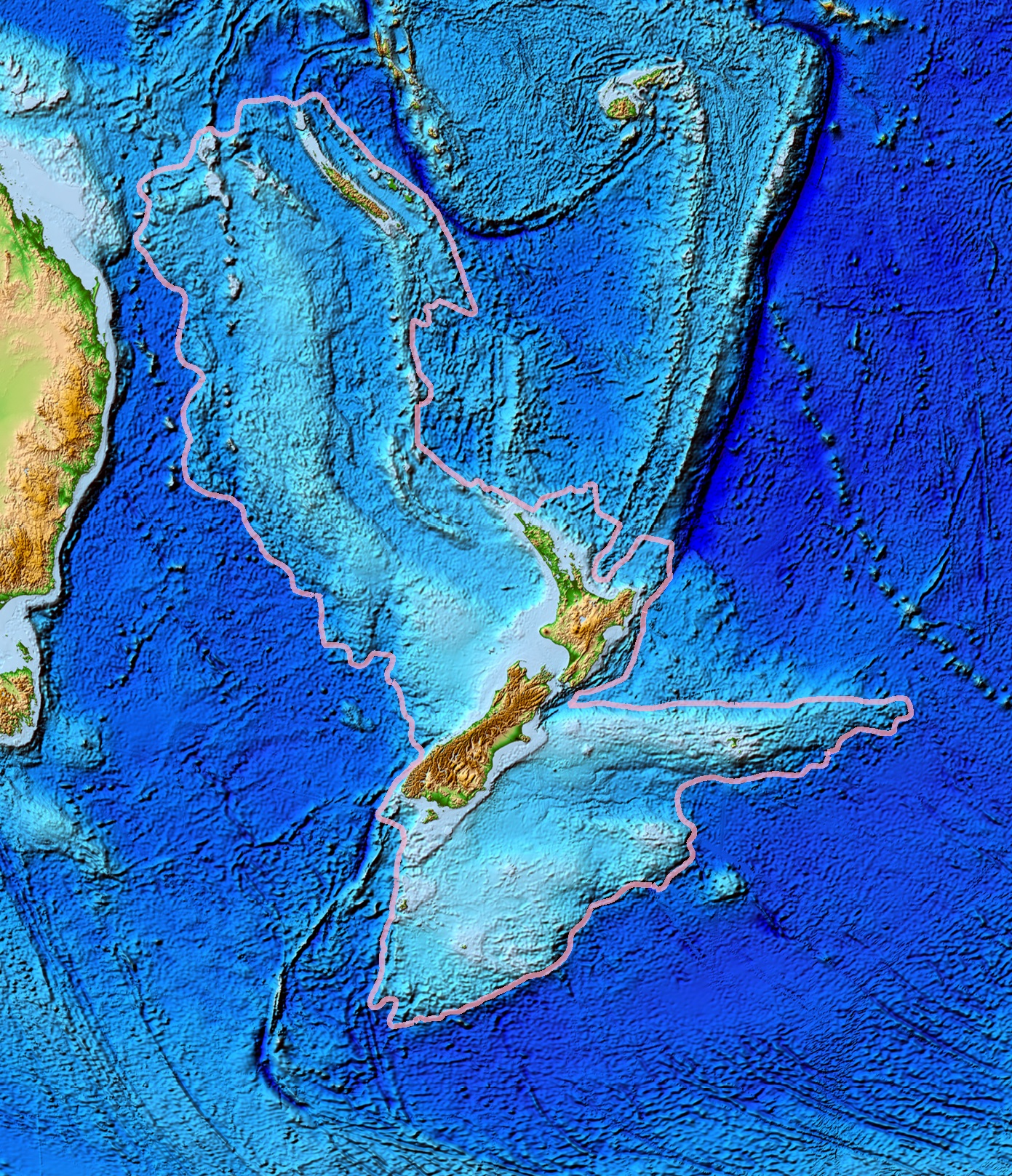 Topographical map of the Zealandia continent.